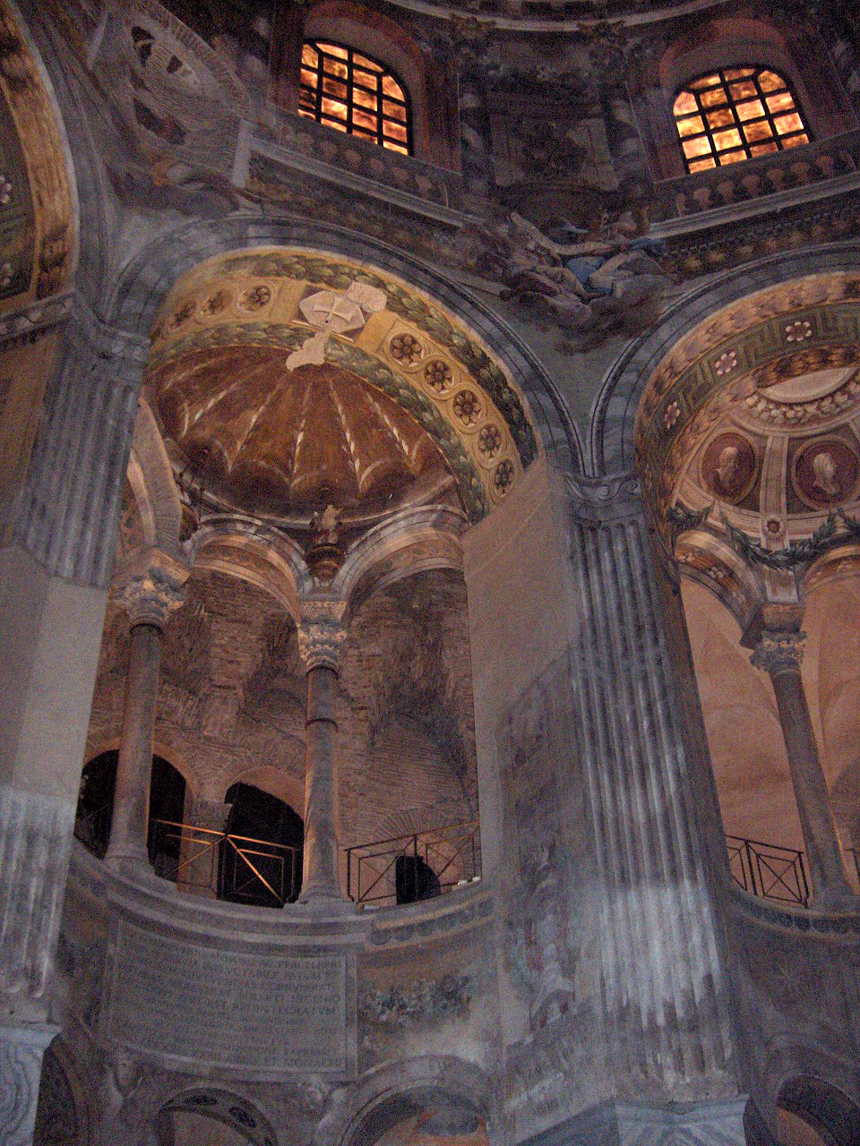 Interior with matroneum (upper ambulatory); Basilica of San Vitale in Ravenna, Italy